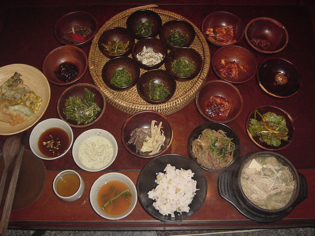 Korean vegetarian dishes in a restaurant in Seoul